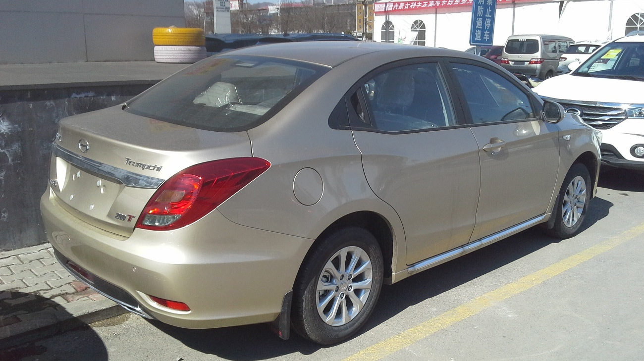 GAC Trumpchi GA3S photographed in Hohhot, Inner Mongolia province, China.